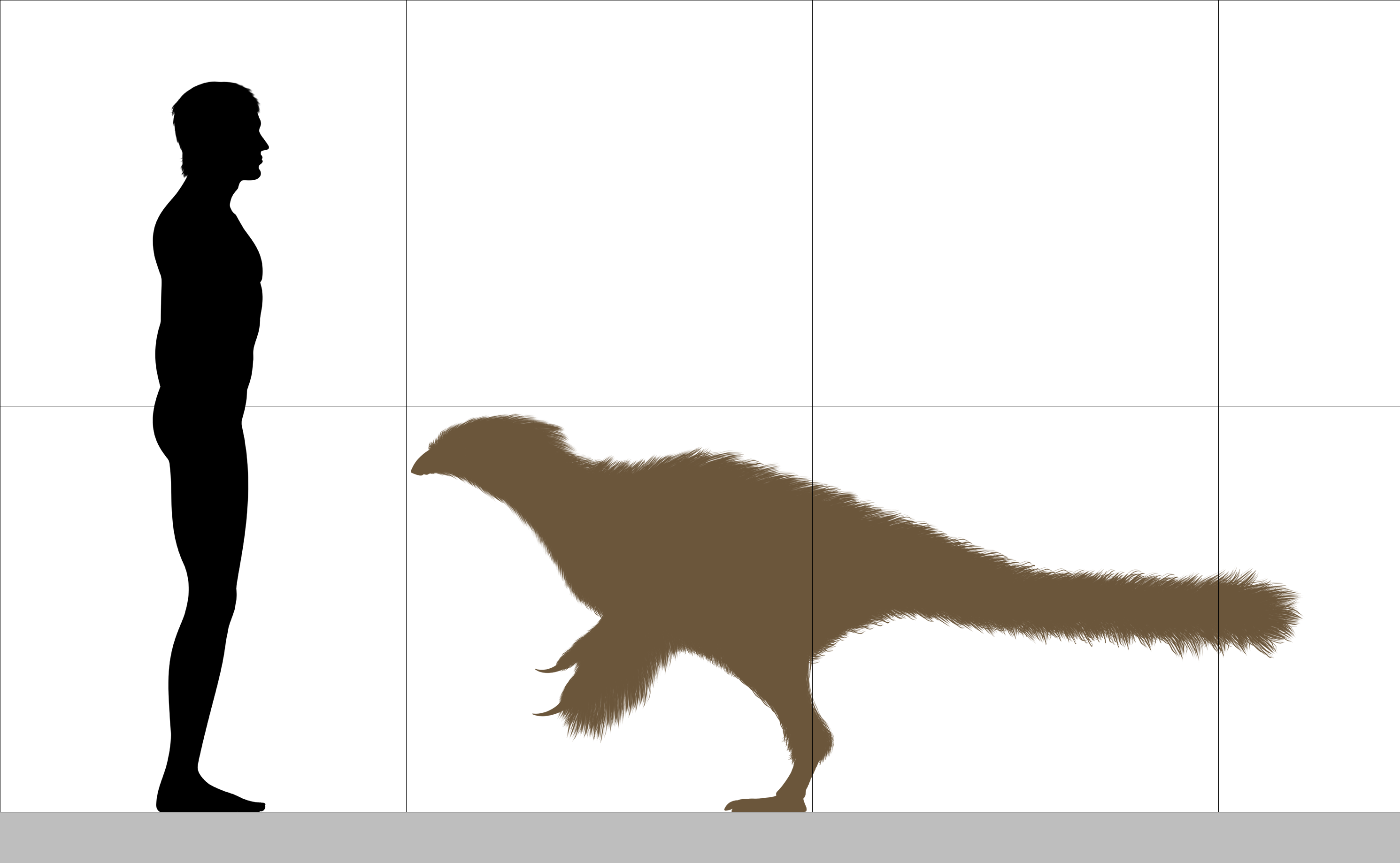 Size chart comparing an average individual of the primitive therizinosaurs Beipiaosaurus inexpectus with a 1.8 m (5.9 ft) tall male human. They have an estimated length of 2.2 m (7.2 ft) and weight between 45–91 kg (99–201 lb).[1][2]